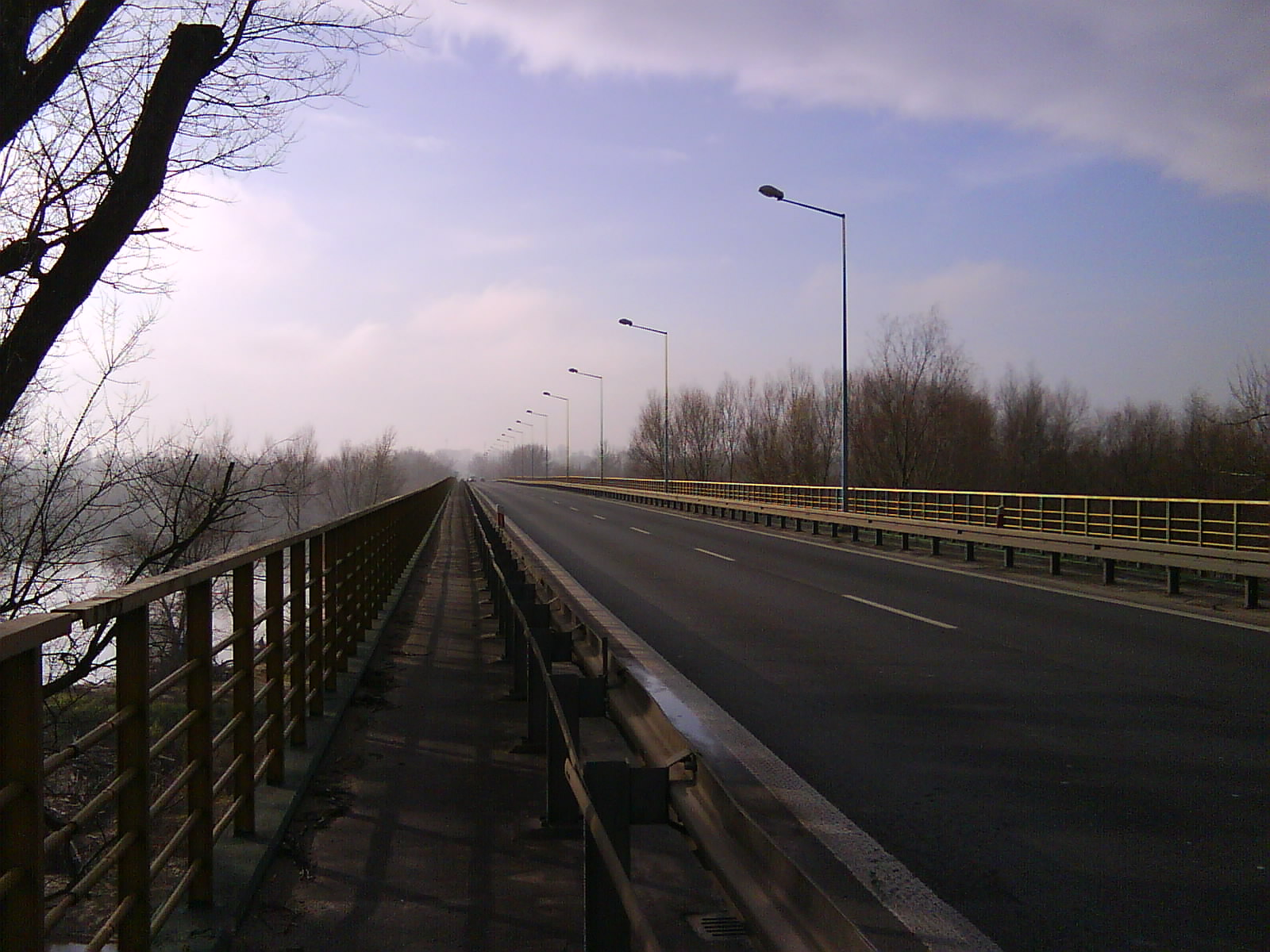 The bridge over the Vistula River in Góra Kalwaria.